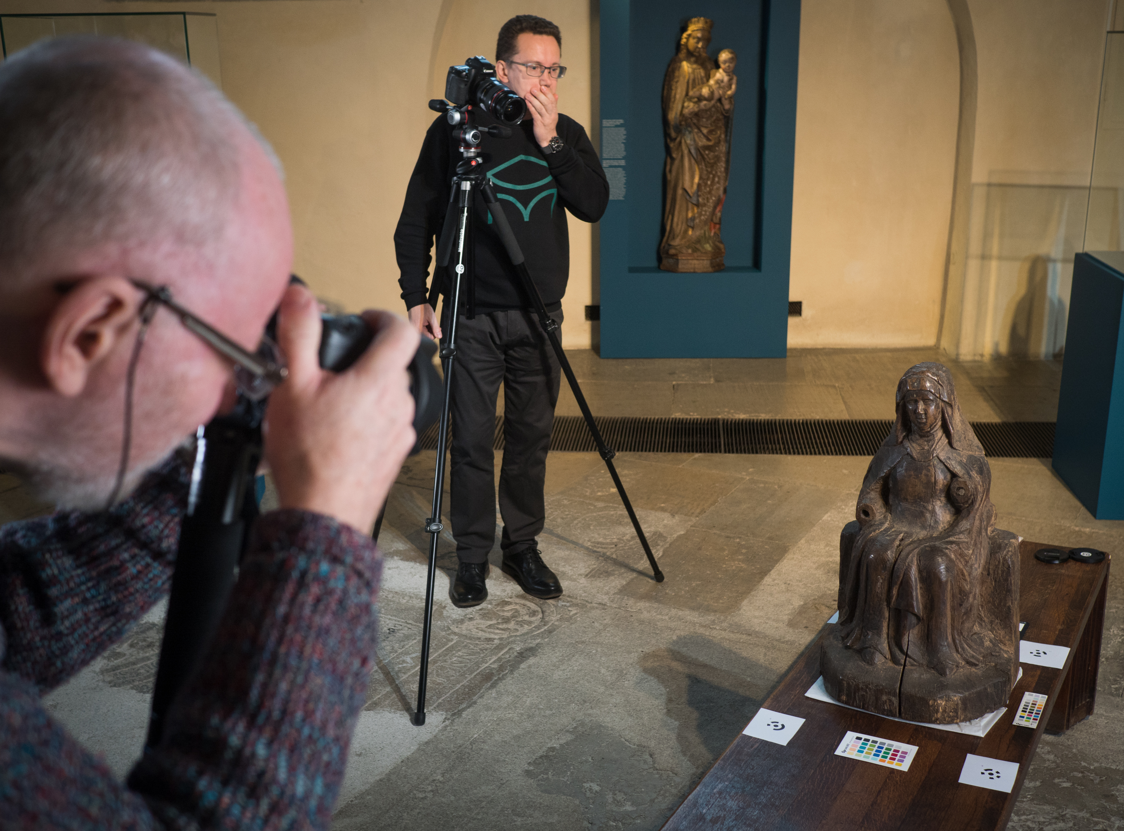 RTI & photogrammetry workshop in the Tallinn St Nicholas' Church, Nov 2019. Priit Lätti from Estonian Maritime Museum (in center) and Alar Nurkse from Estonian Art Museum (on the left) taking pictures of a medieval wooden sculpture during a photogrammetry and RTI workshop.